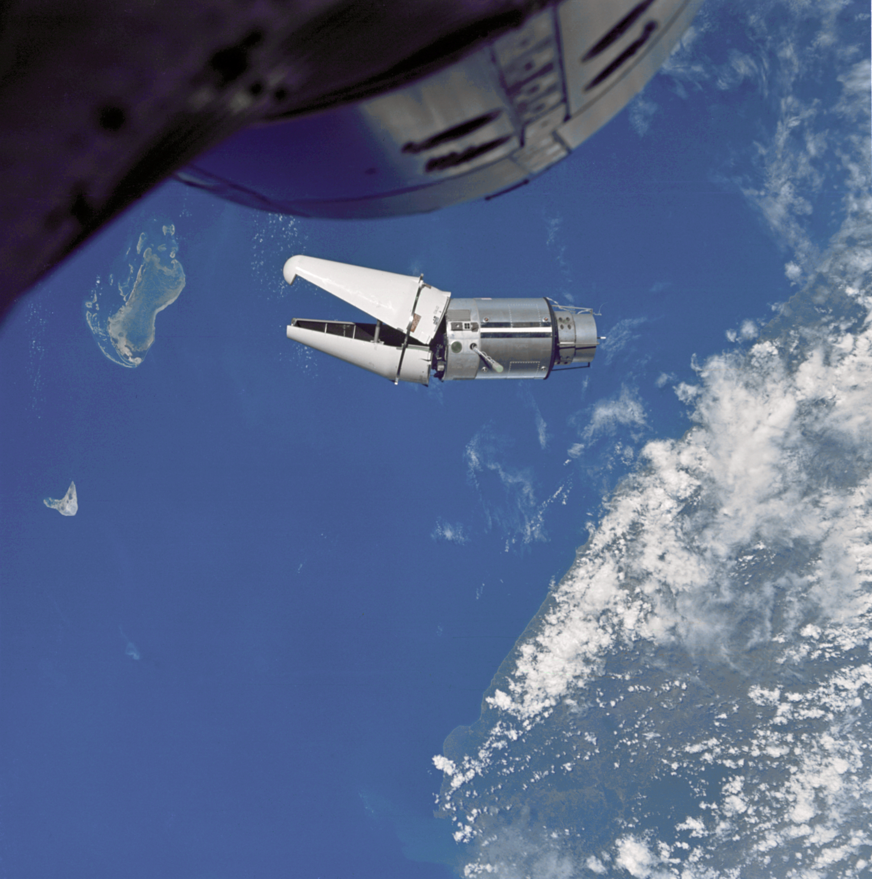 The Augmented Target Docking Adapter (ATDA) as seen from the Gemini 9 spacecraft during one of their three rendezvous in space. The ATDA and Gemini 9 spacecraft are 66.5 feet (20.3 m). apart. Failure of the docking adapter protective cover to fully separate on the ATDA prevented the docking of the two spacecraft. The ATDA was described by the Gemini 9 crew as an "angry alligator".